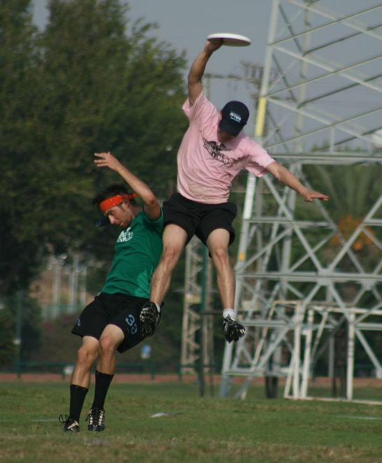 Koren Maliniak getting the Sky over Jonathan Masler in the 2009 New Year's Holylanders HAT tournament in Tel Aviv, Israel.